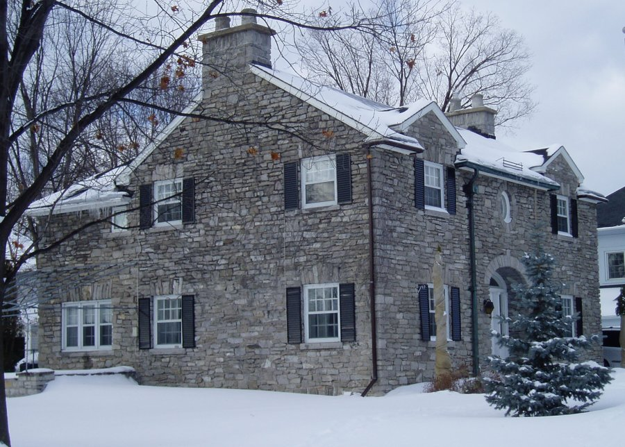 Taken by SimonP in January 2005